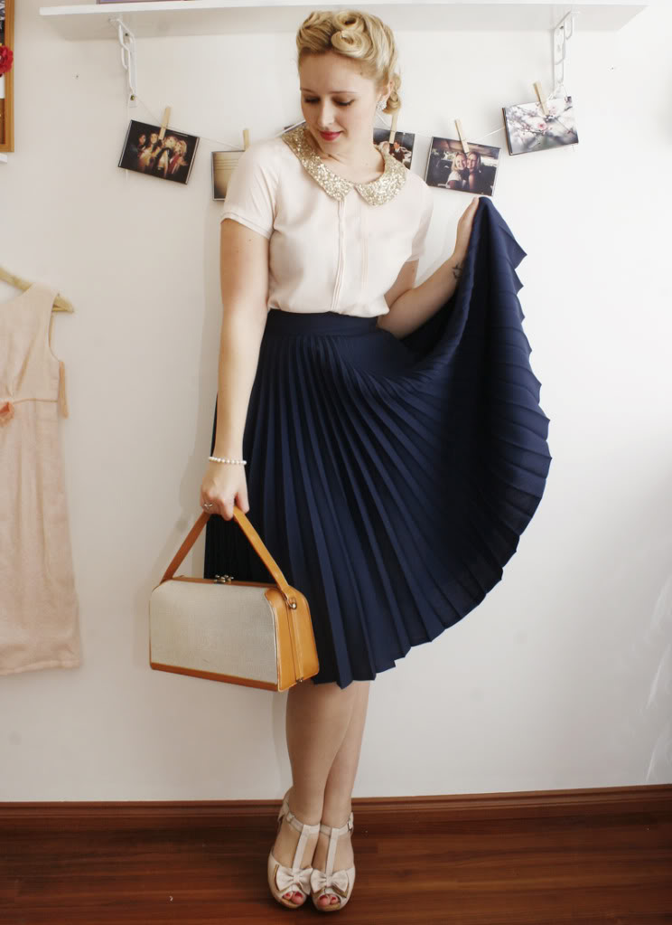 A woman wearing a blue pleated skirt.